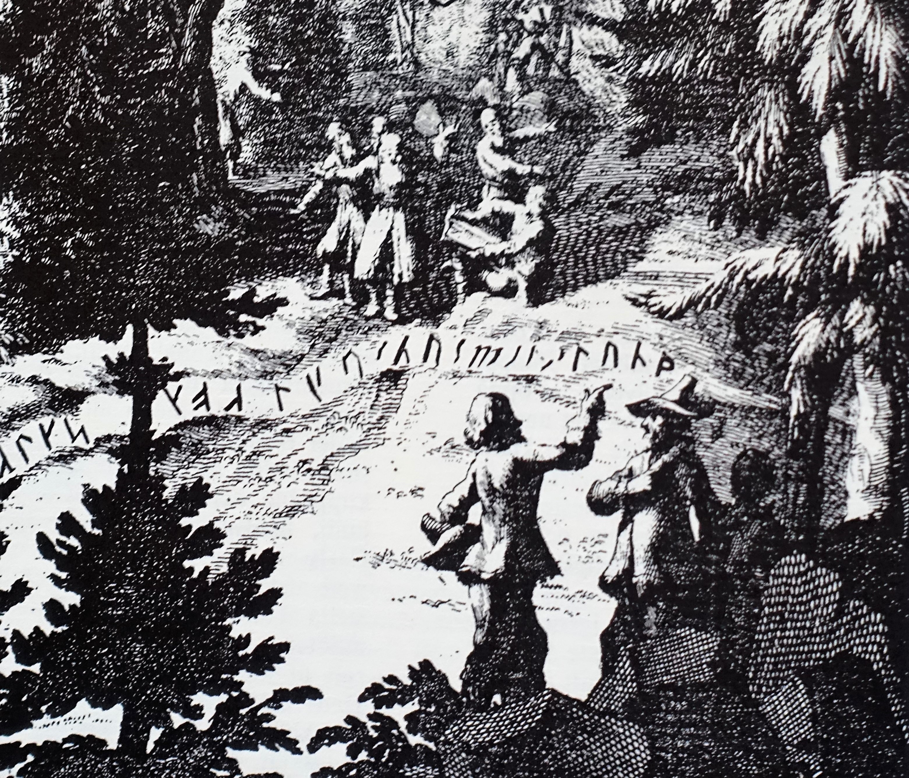 Detail from the page "Insigne Comitatus Blekingiae" in Erik Dahlbergh's Suecia antiqua et hodierna. The picture was engraved by Johannes van den Aveelen in 1712.